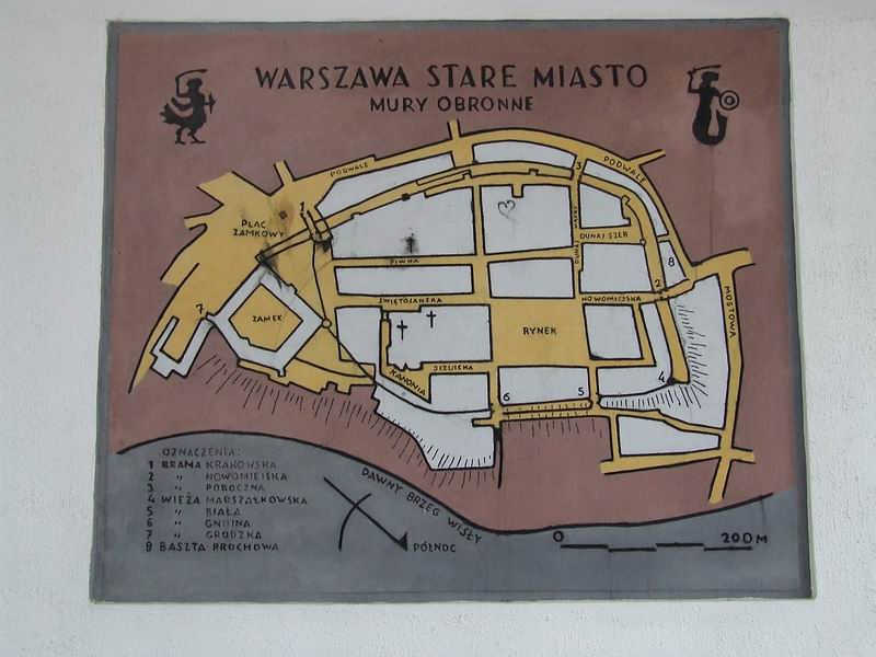 Map of the defensive walls in Warsaw (20 Wąski Dunaj Street)